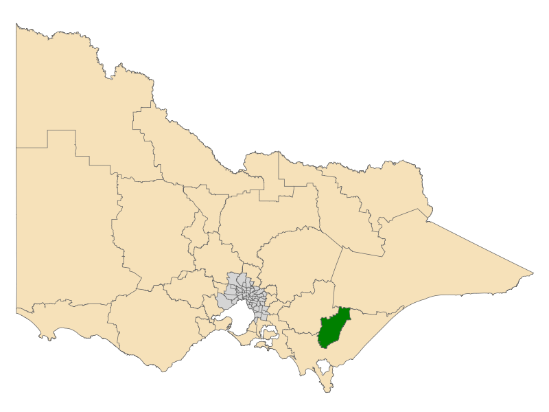 Location of the Electoral District of Morwell (dark green) in the state of Victoria, Australia. These boundaries were used for the Victorian state election on 29 November 2014.